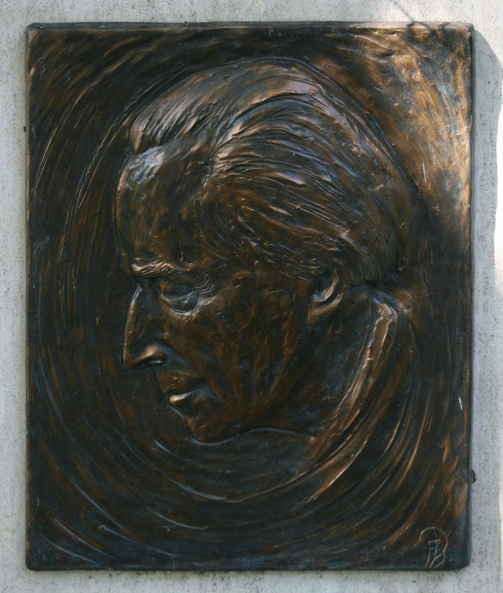 Close up of the Memorial of Hans Dieter (14.01.1881 - 30.12.1968) and Johanna Dieter (18.12.1902 - 01.12.1991).